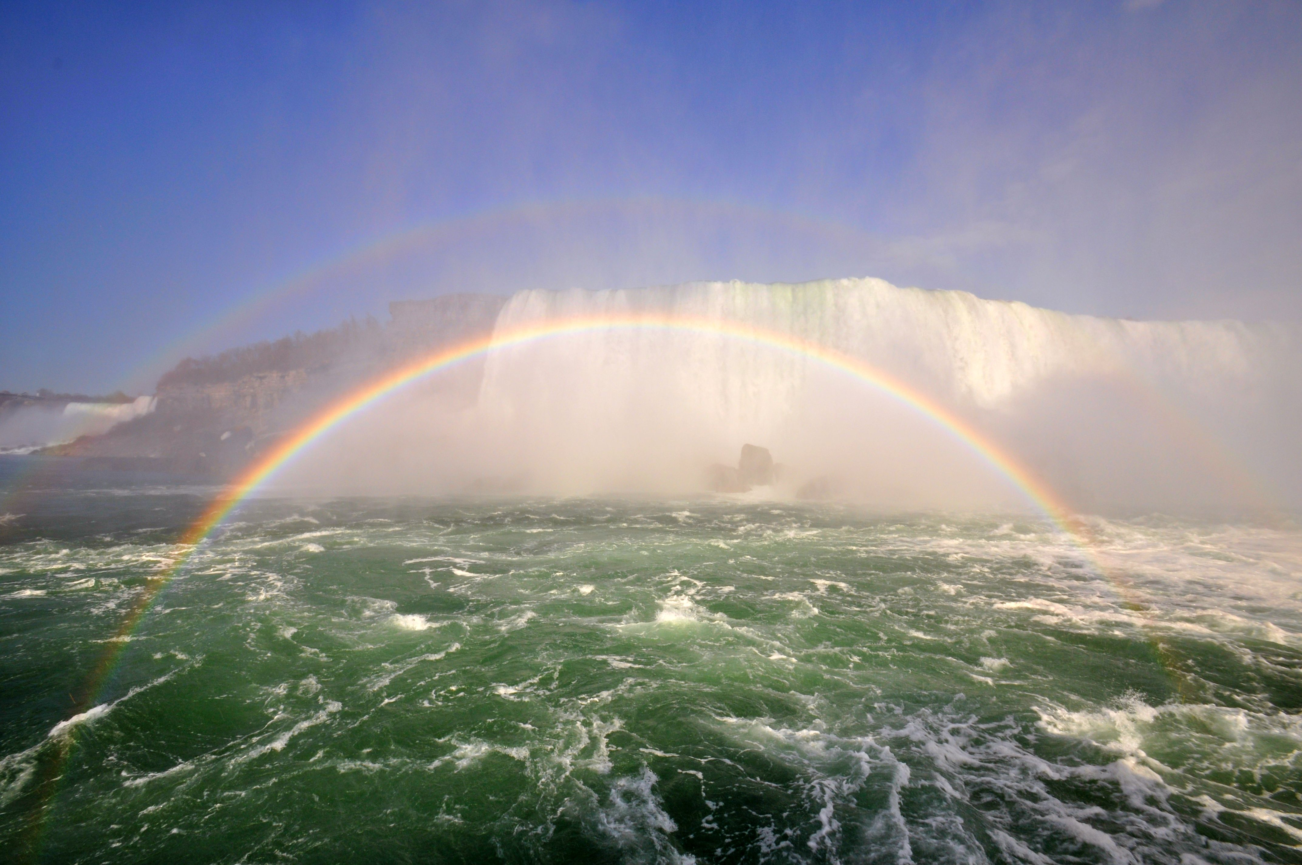 Double Rainbow with Niagara Falls